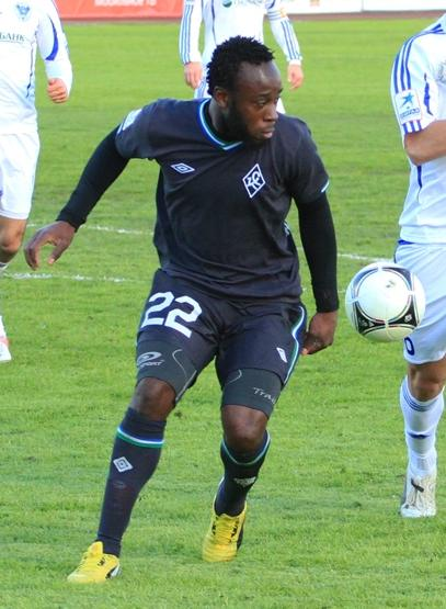 Réginal Goreux playing for FC Krylia Sovetov Samara.